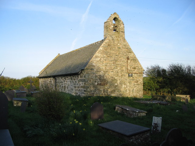 St Pabo's Church, Llanbabo, Anglesey, Wales